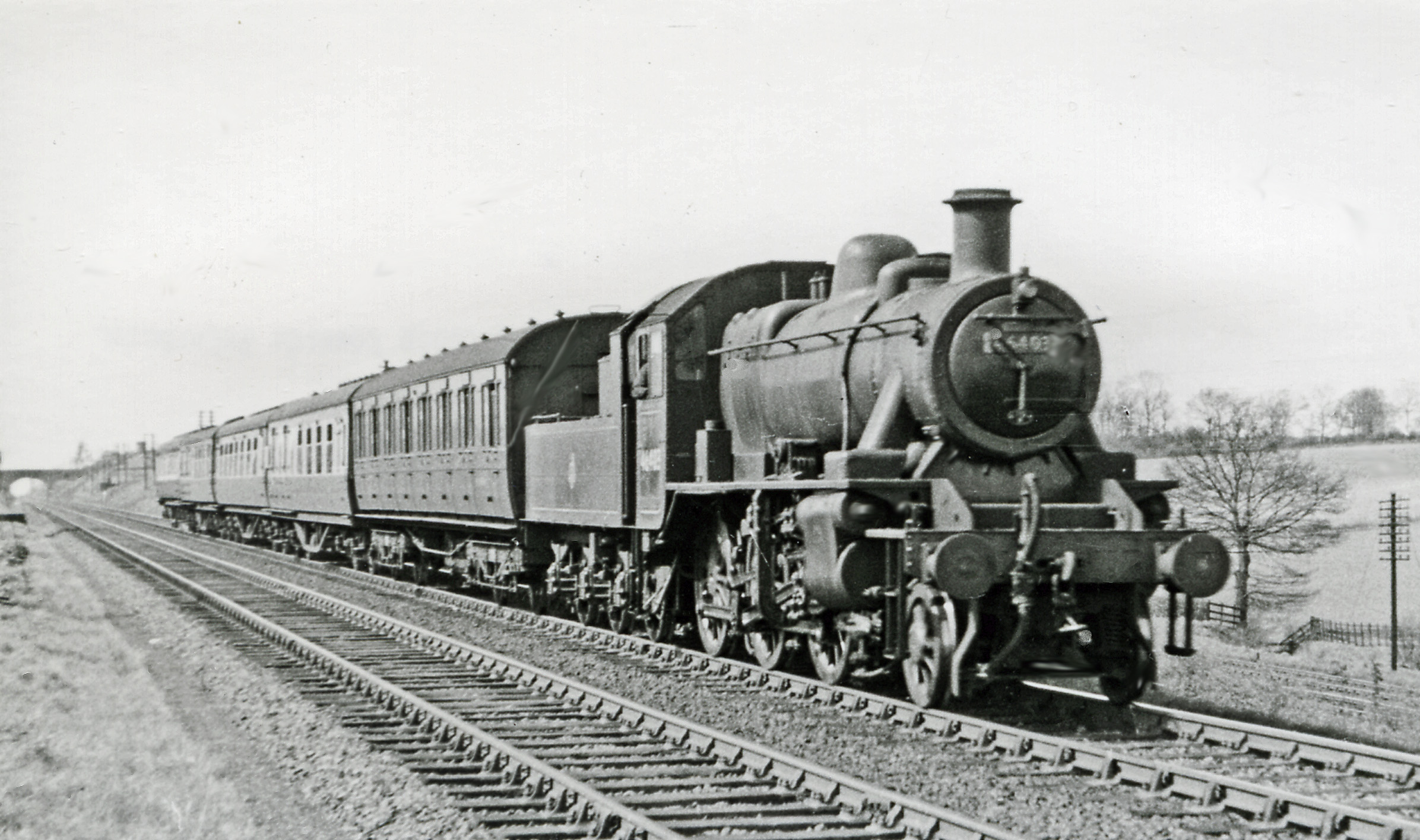 Kettering - Bedford stopping train near Souldrop Summit. View NW, towards Wellingborough, Kettering etc., ex-Midland main line from London St Pancras. On the Up Fast, the 14.36 from Kettering is headed by LMS Ivatt 2MT 2-6-0 No. 46403 (built 12/46, withdrawn 7/64). The Slow lines coming fromtheir separate tunnel through the summit are just out of sight down on the right.